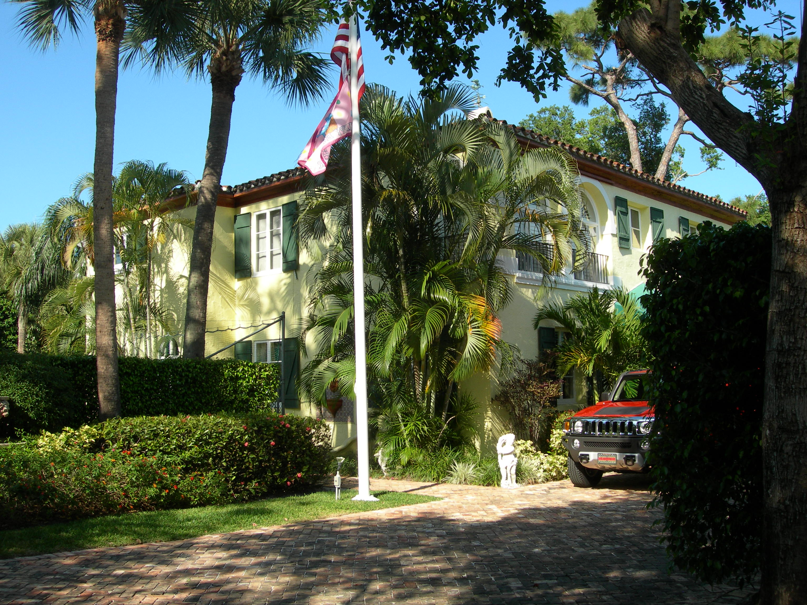 Lavender House in Boca Raton, Florida (on historic sites register)